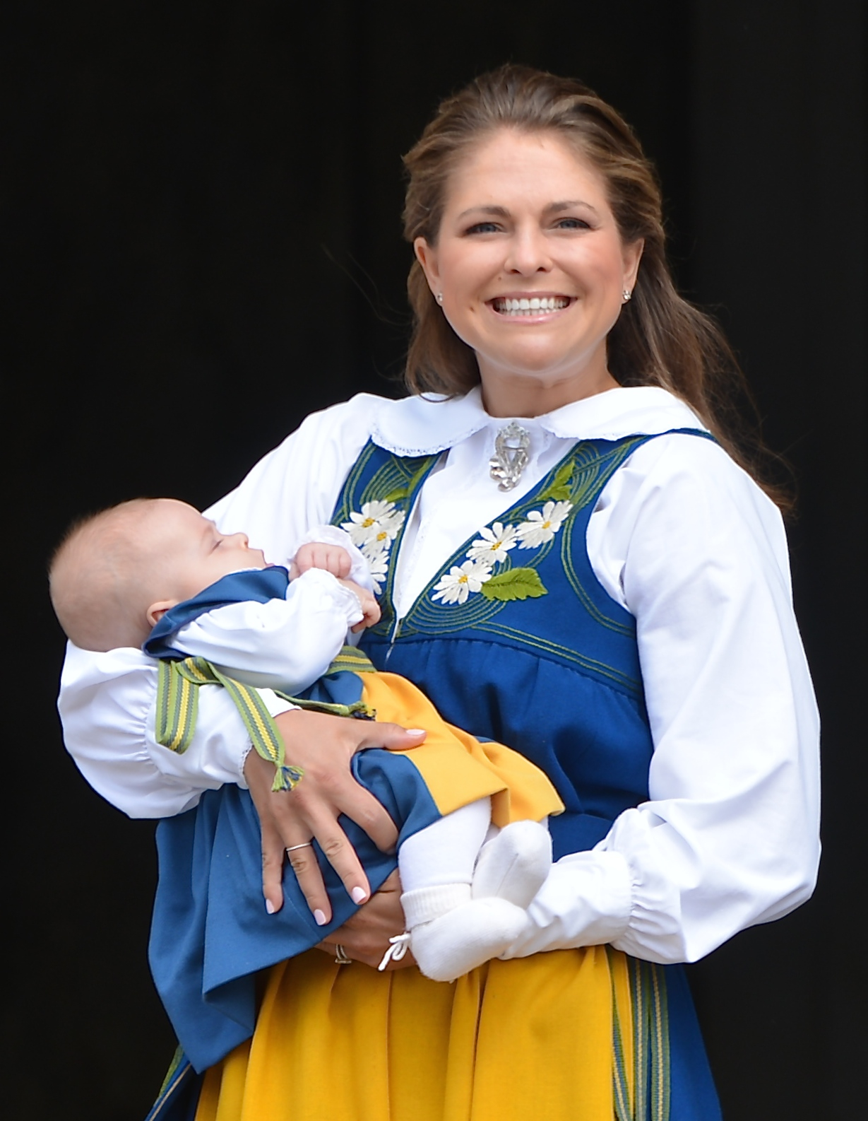 Princess Leonore and Princess Madeleine on Sweden´s National Day 2014.